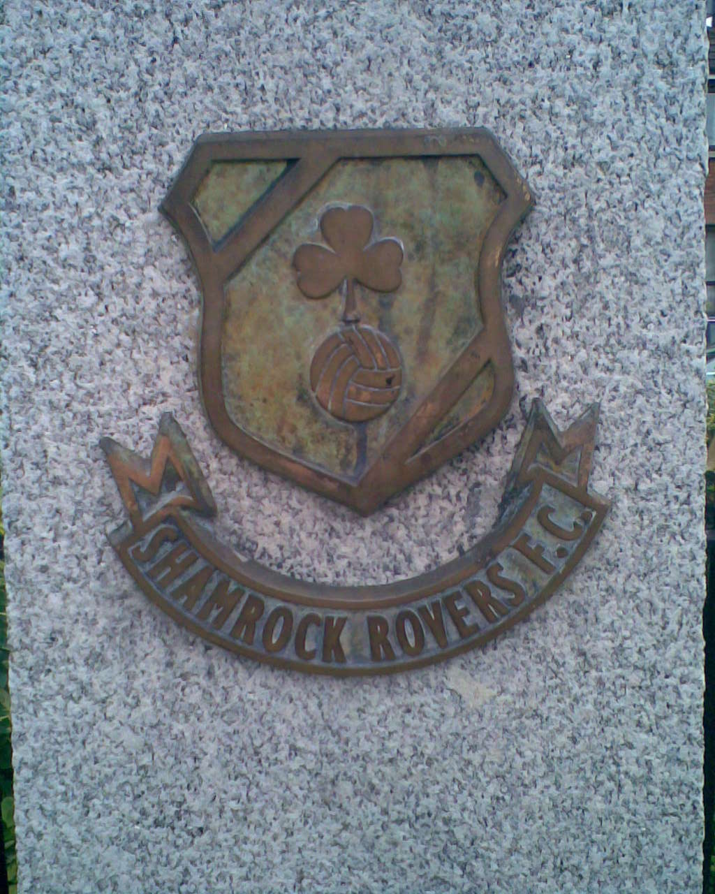 A plaque of Shamrock Rovers GC on the remberance stone about the former football field at Milltown